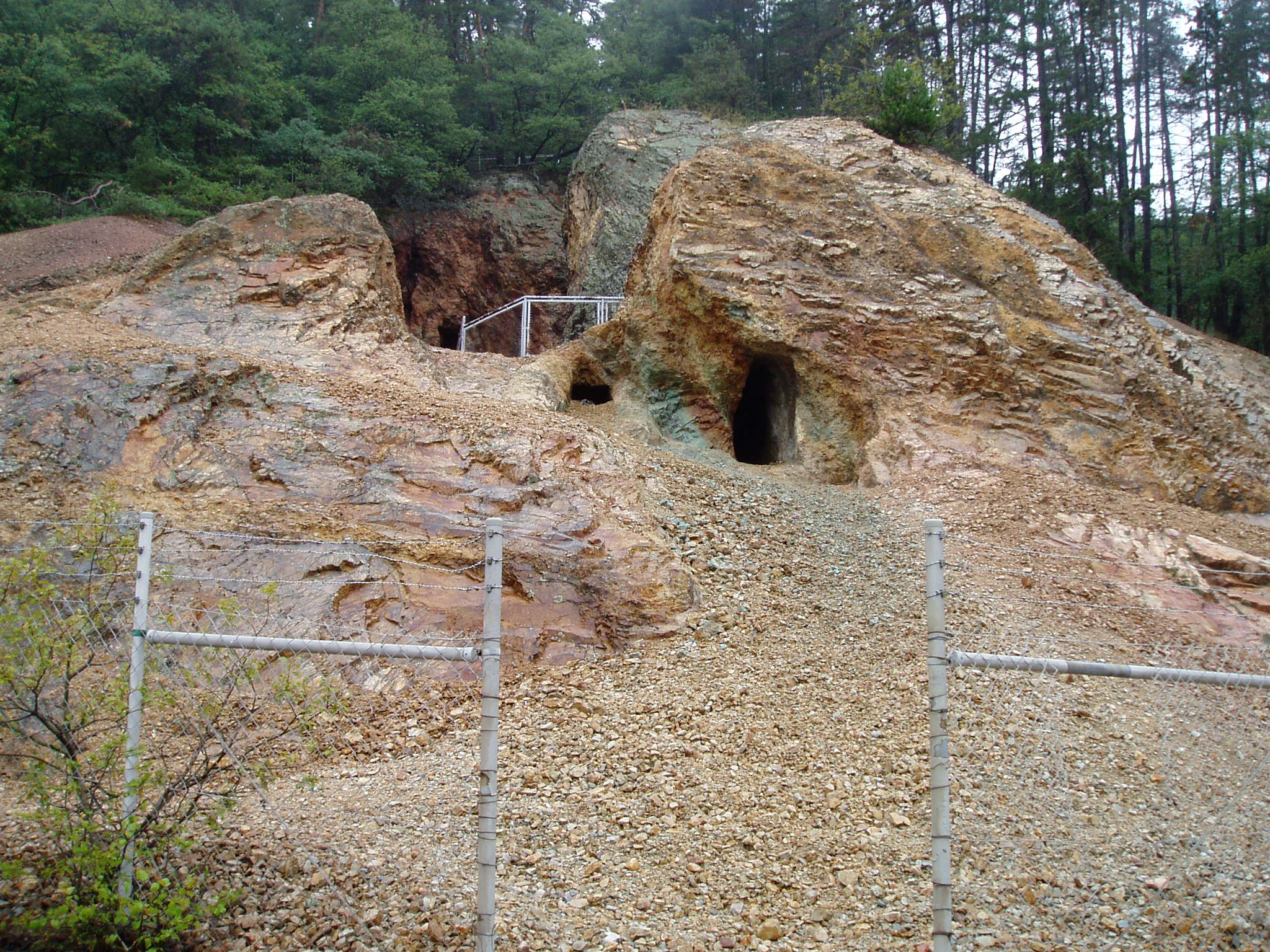 Abandoned copper mine “Katharina I” within Early Permian (“Rotliegend”) Rhyolite of the Donnersberg massif. Southeasternmost part of Donnersberg massif near town of Imsbach, eastern Rhineland-Palatinate, W-Germany.